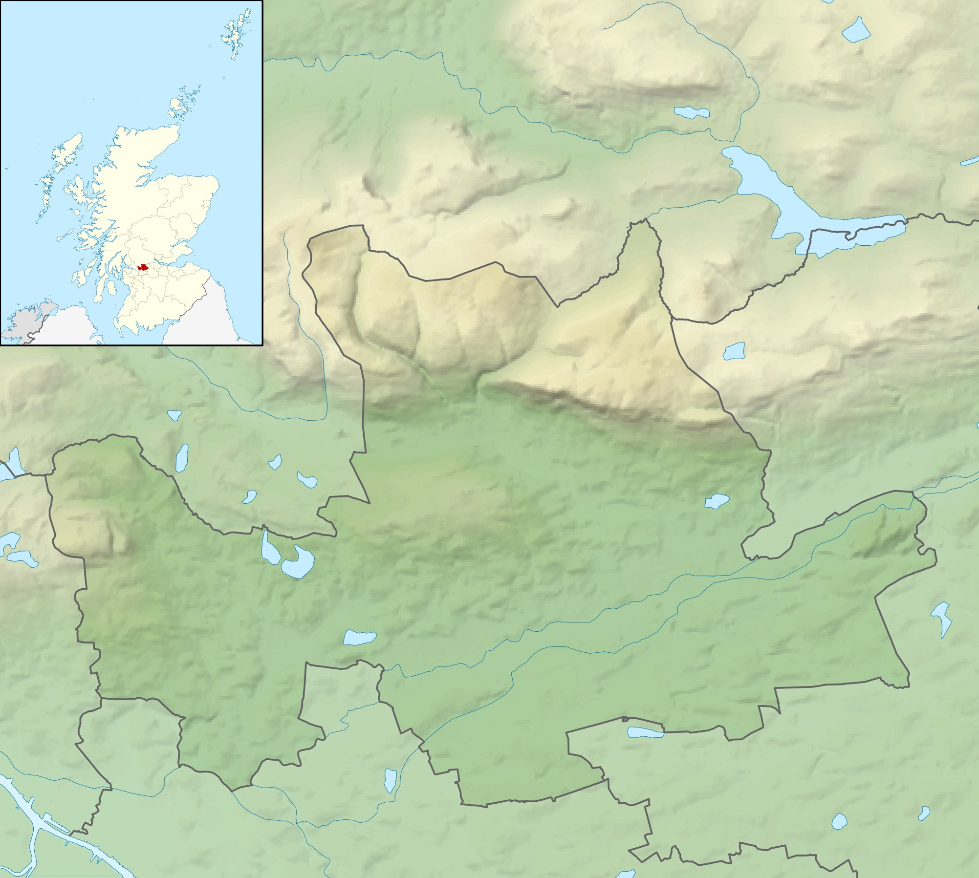 Relief map of East Dunbartonshire, UK. Equirectangular map projection on WGS 84 datum, with N/S stretched 175% Geographic limits: West: 4.42W East: 4.03W North: 56.08N South: 55.88N